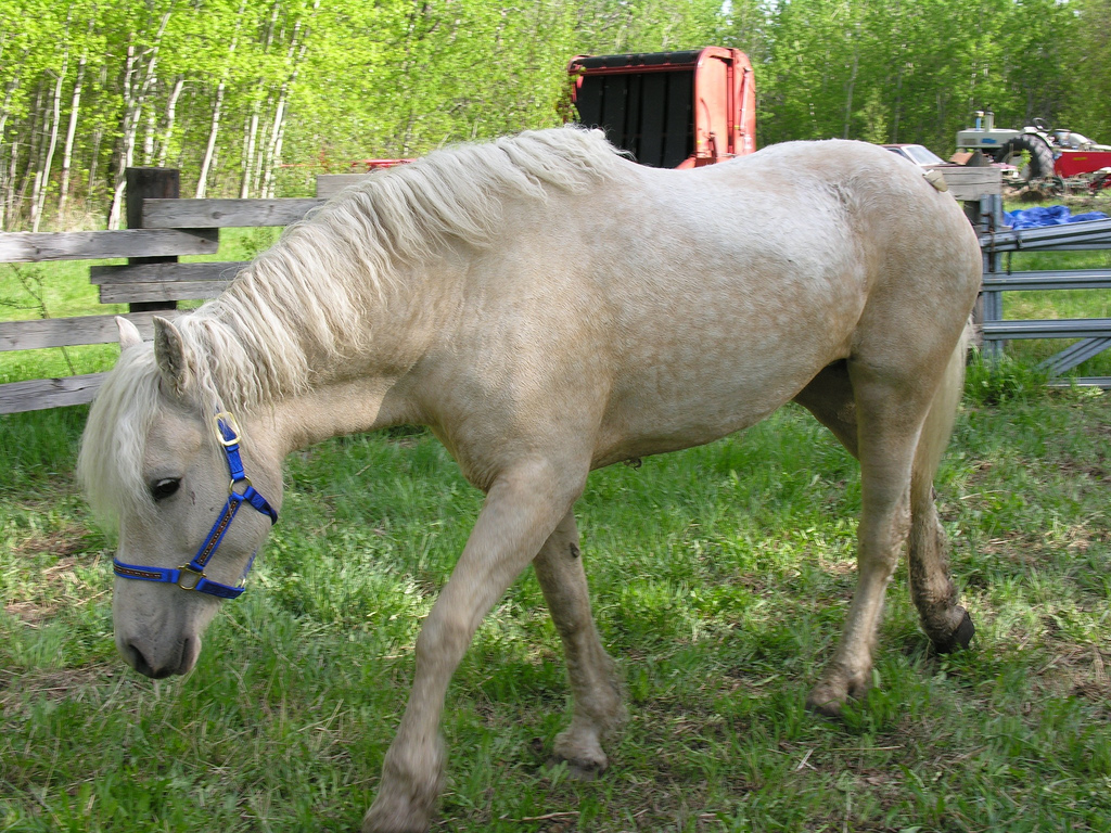 Our new horse...